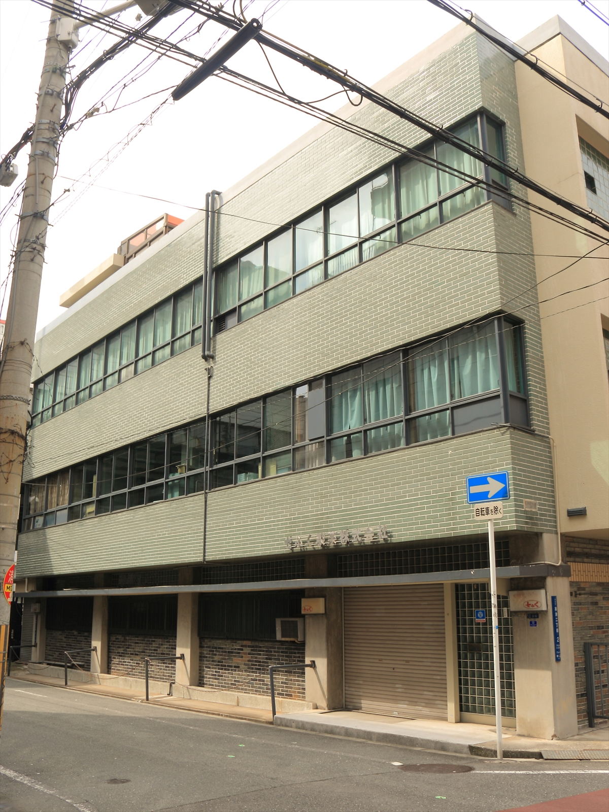 Headquarter of Hitifuku Inc.